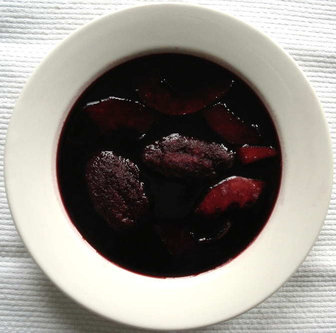 Elderberry soup with semolina dumplings and apples